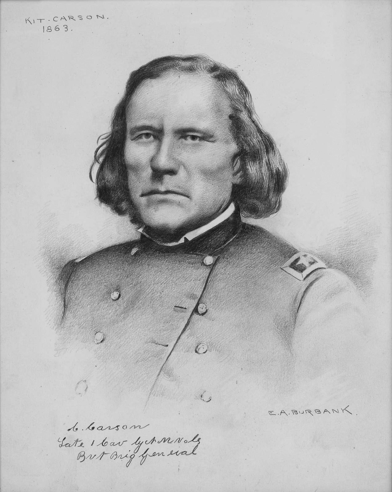 Kit Carson, 1863 pencil on paper 368 x 286 mm signed b.r.: E.A. Burbank inscribed b.l.: C. Carson, Late 1 Cavly NM Vols, Bvt Brig General